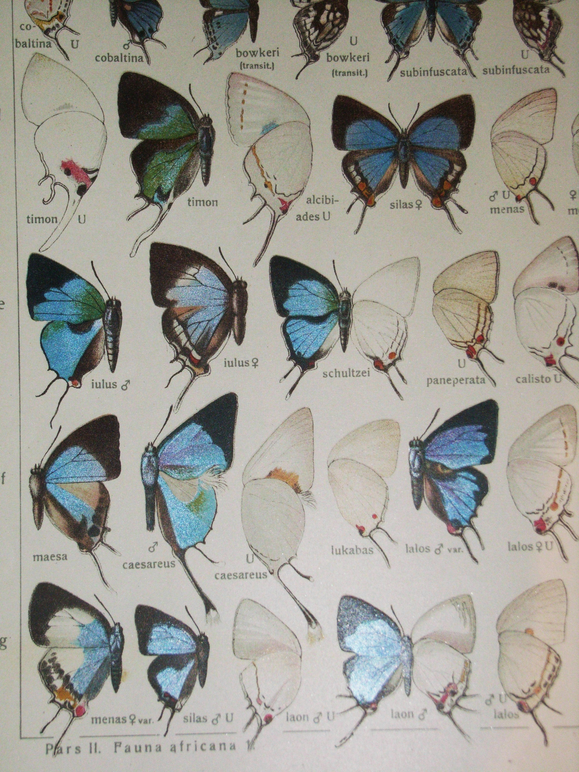 Aurivillius, Chr. Die Gross-schmetterlinge der Erde, von Dr. Adalbert Seitz. Fauna Africana (1908?) Iolaus timon (Fabricius, 1787)